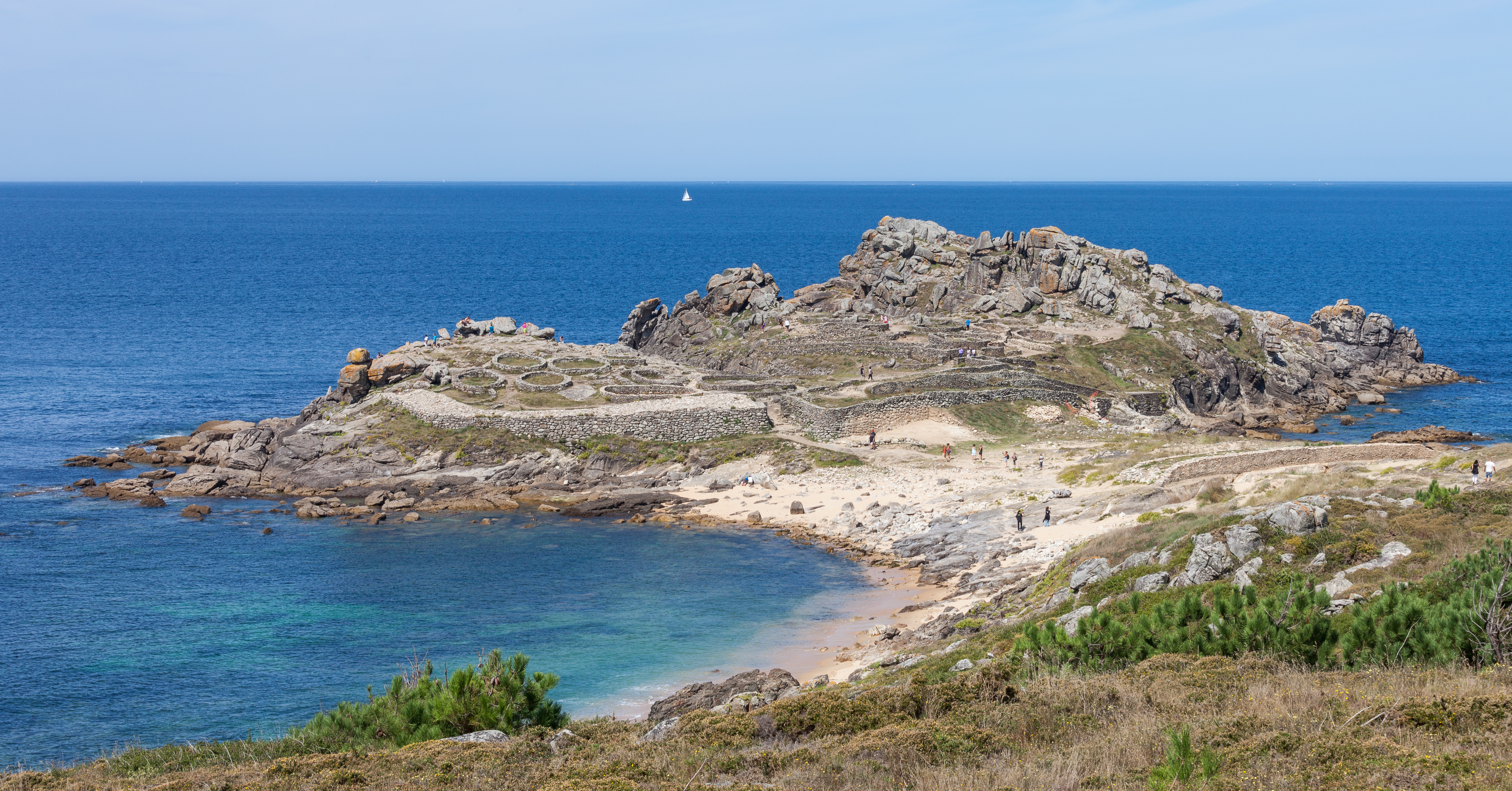 Hill fort of Baroña, Porto do Son, Galicia (Spain).